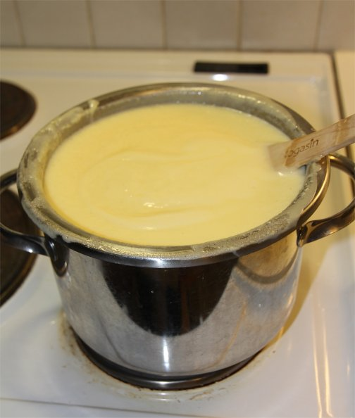 Heating of classical pasha (paskha) during the preparation. At this phase there are butter, sugar, egg, quark, cream and vanilla in the pot. In this example water bath between the actual pot and the inner pot is used during the heating. Heating is continued until steam comes from the pasha mass and the pasha mass thickens a bit; it does not need to boil (typically water boils in the bath). Note: the link to the legal code of license was not not working so it so I cannot be sure it is correct; I accept only use/ license where attribution to the original contributor shall be kept if file is used later.